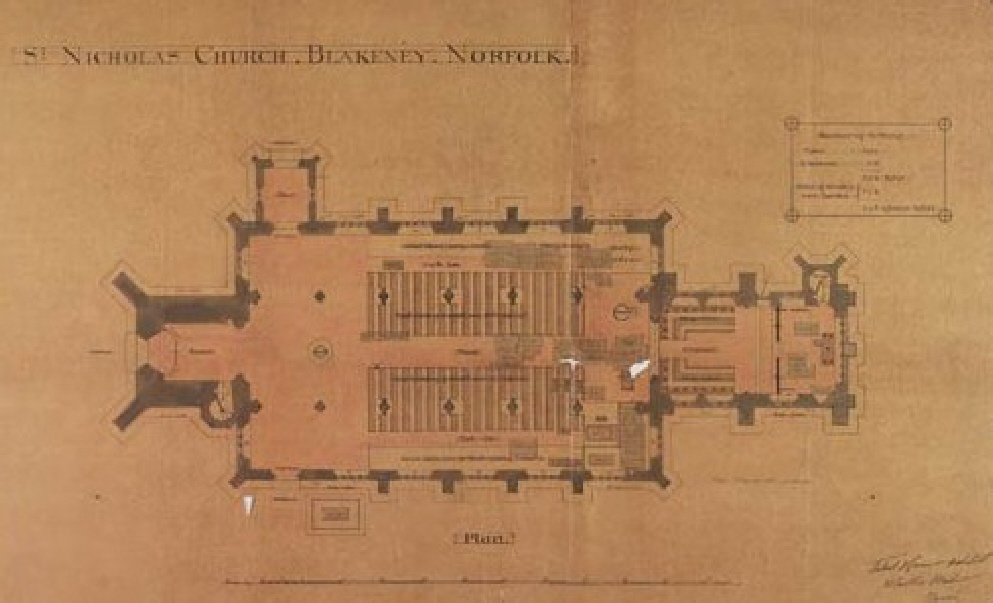 Ground plan of St Nicholas, Blakeney